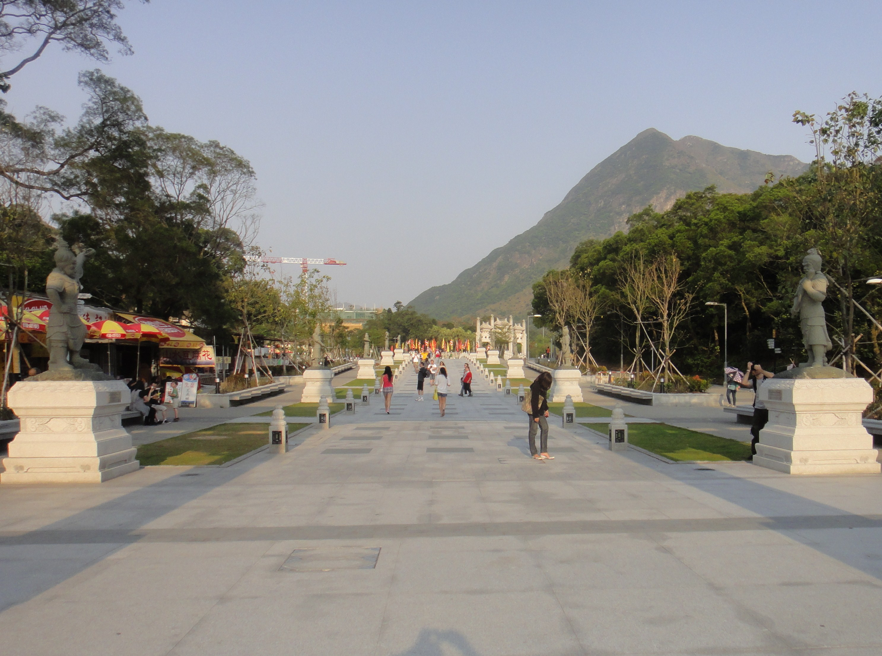 Tian Tan Buddha